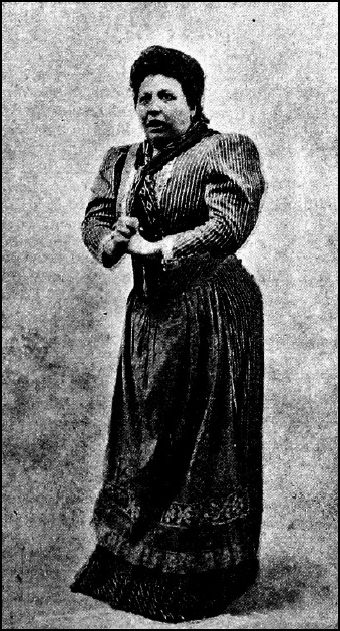 Adela Clemente, by Bartrina, in La Escena Catalana magazine of 26.6.1909